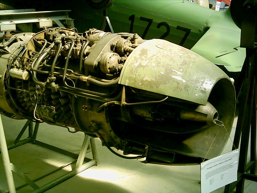 Junkers Jumo 004B-1, Kbely museum, Prague, Czech Republic